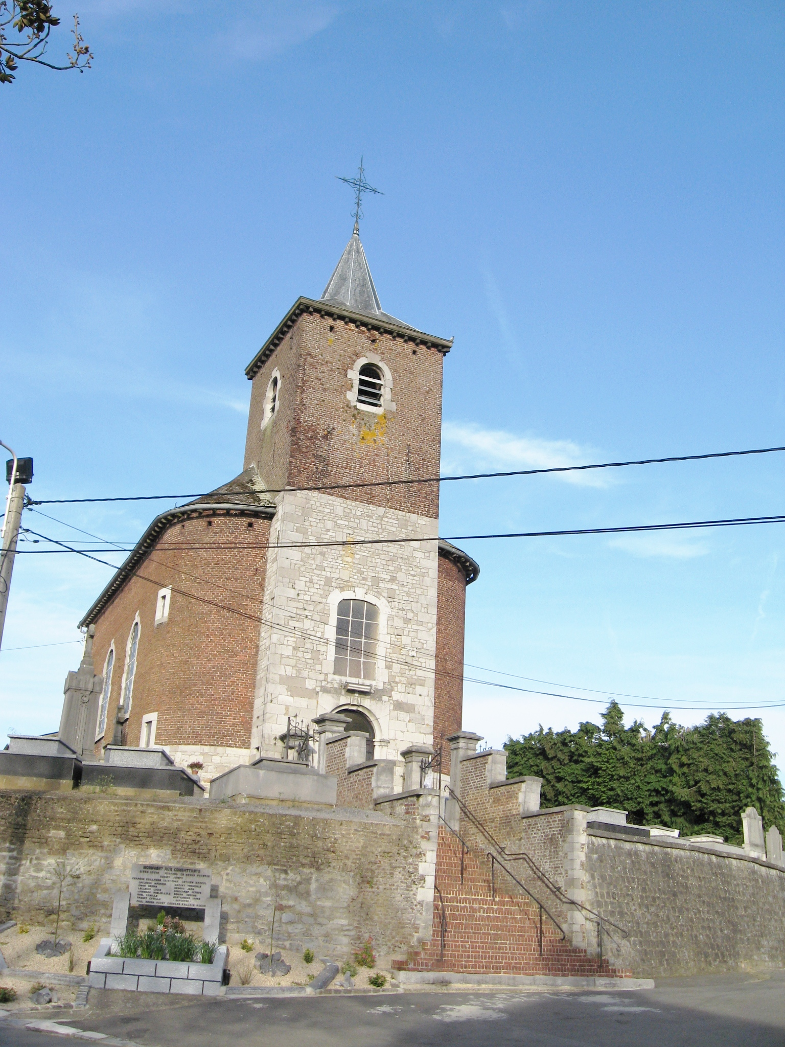 Church of Saint Lambert in Boëlhe, Geer, Liège, Belgium